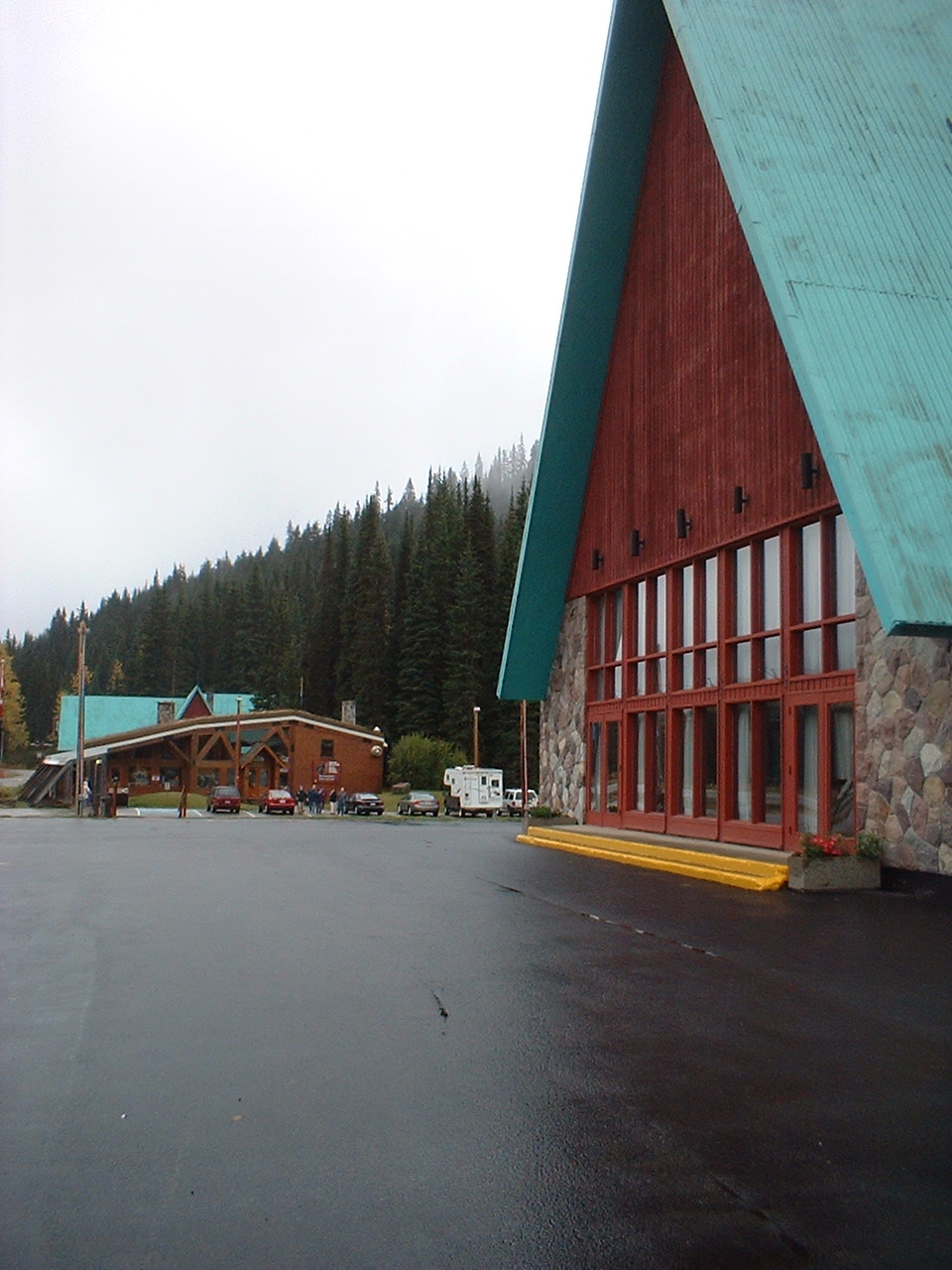 Hotel and Rogers Pass Discovery Centre in Rogers Pass